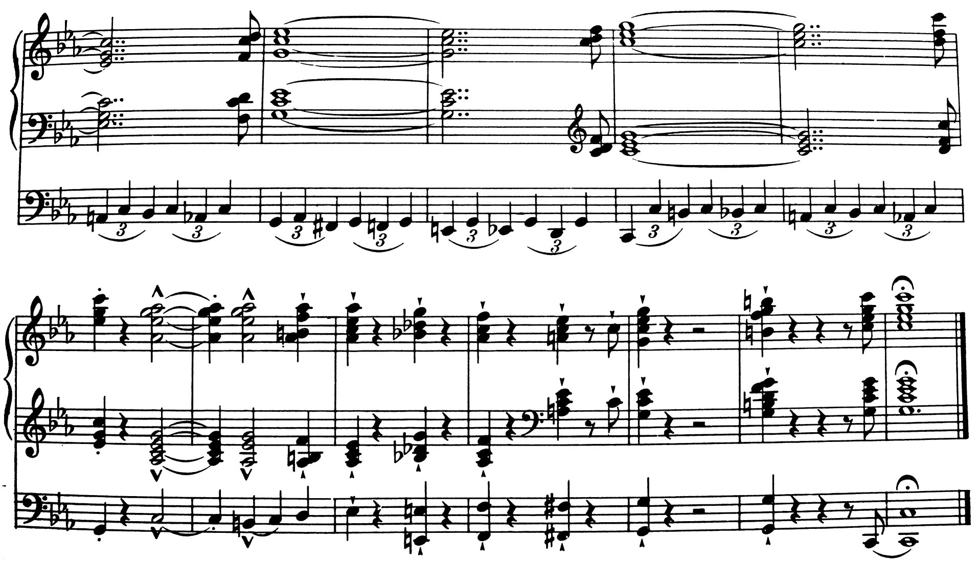 Music example from Julius Reubke's Sonata on the 94th Psalm, ending of last movement. The edition is Oxford University Press, edited by Herbert F. Ellingford, 1932.